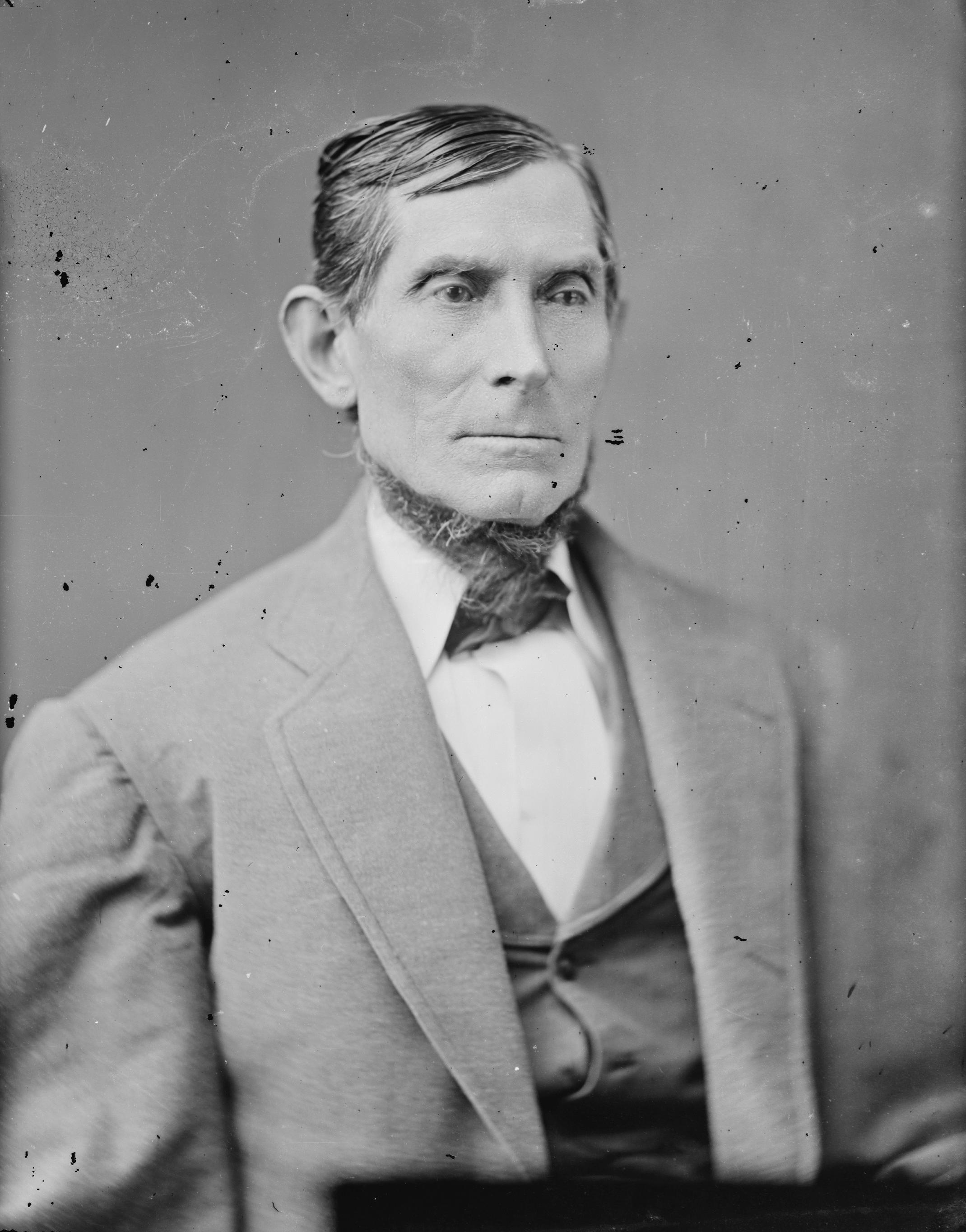 James D. Williams. Library of Congress description: "Williams, Hon. James Douglas of Indiana".